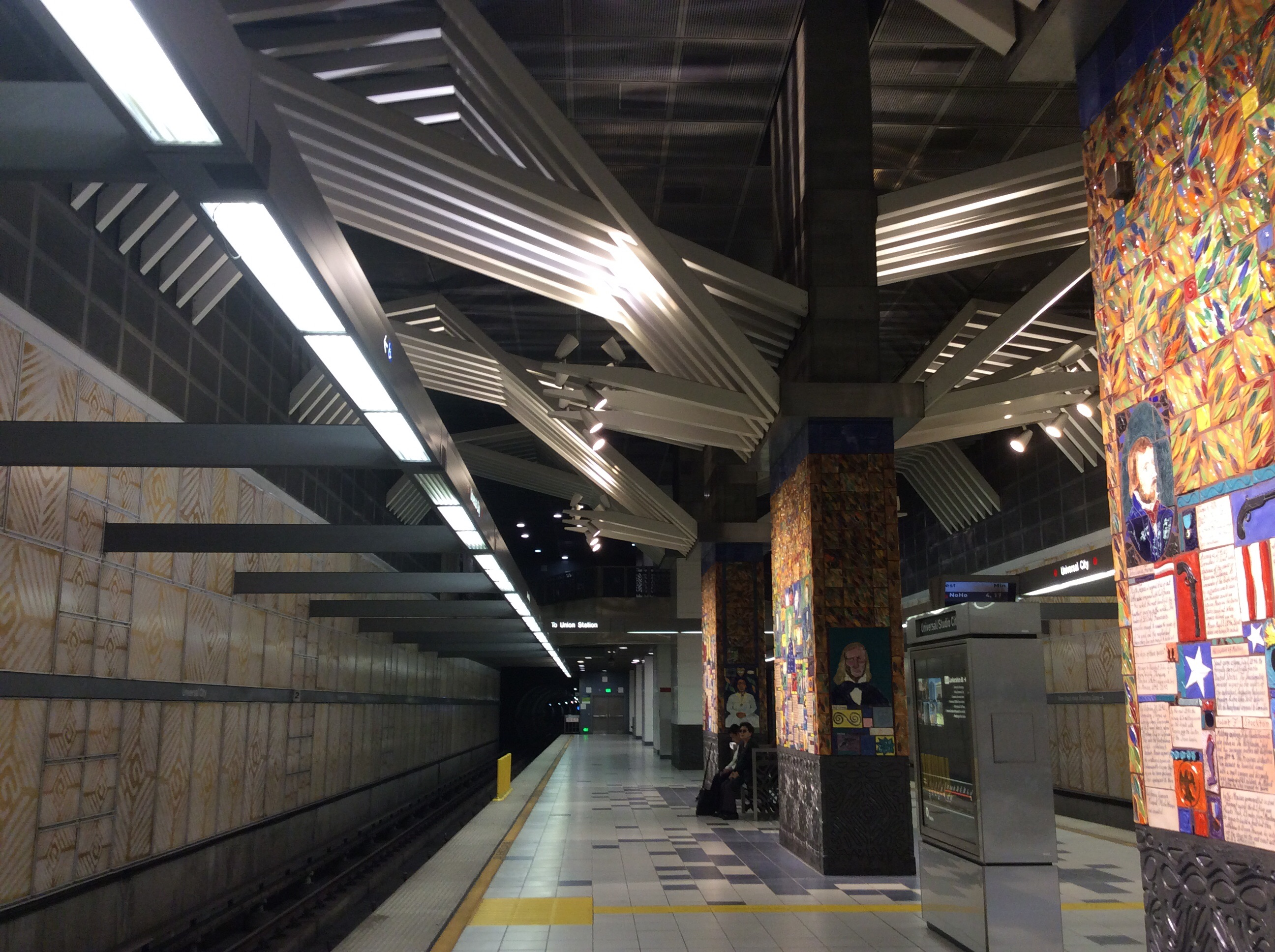 View of the lower floor (platform) of the Universal City/Studio City Station.